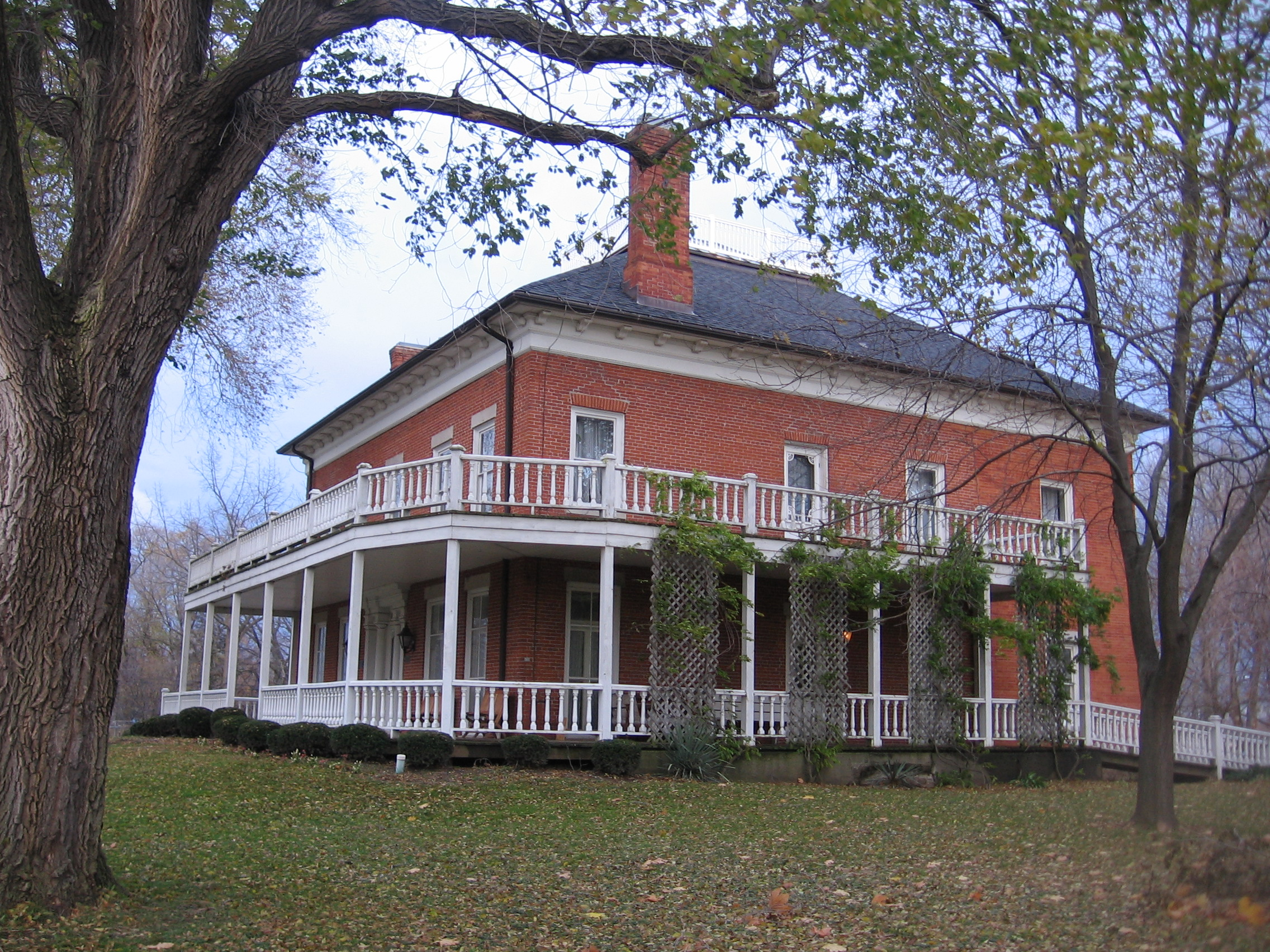 The Van Horn Mansion, Newfane NY, apart of National Register of Historic Places.